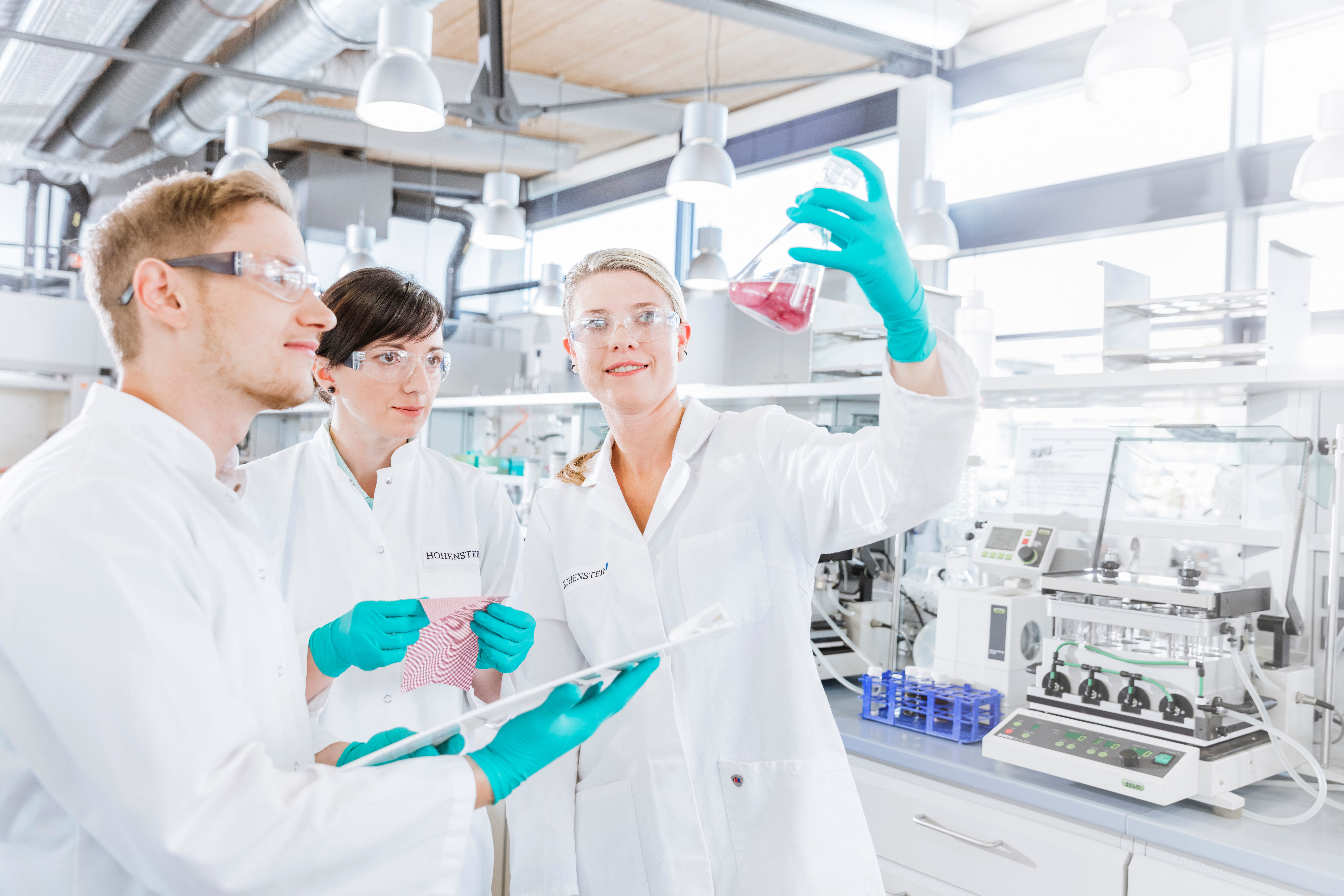 Hohenstein textile testing technicians